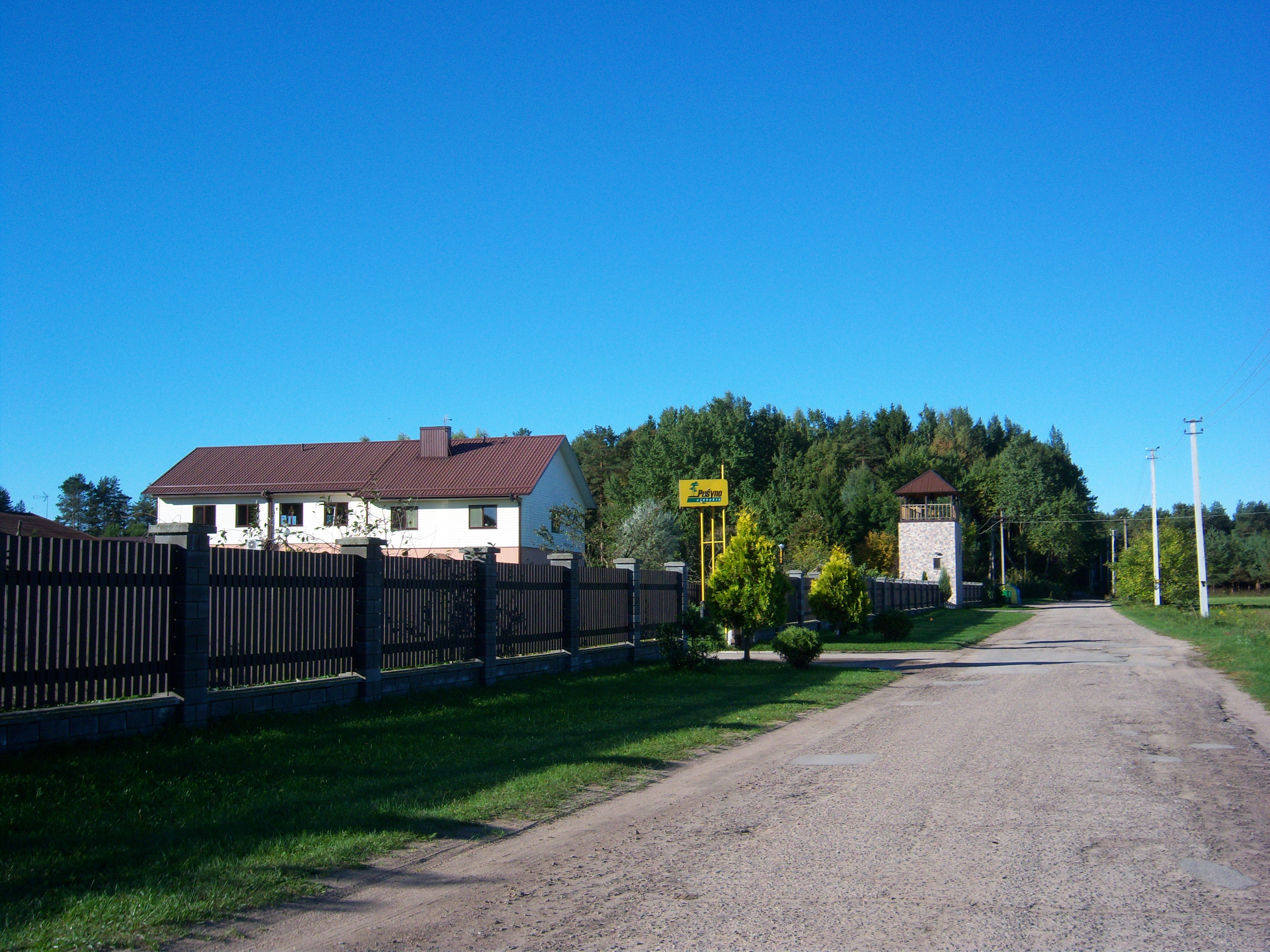 Jadagoniai, Kaunas district, Lithuania